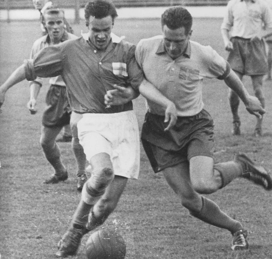 Photograph of the Finnish football player Hannu Kankkonen (1934–2013). In the picture, to the left.